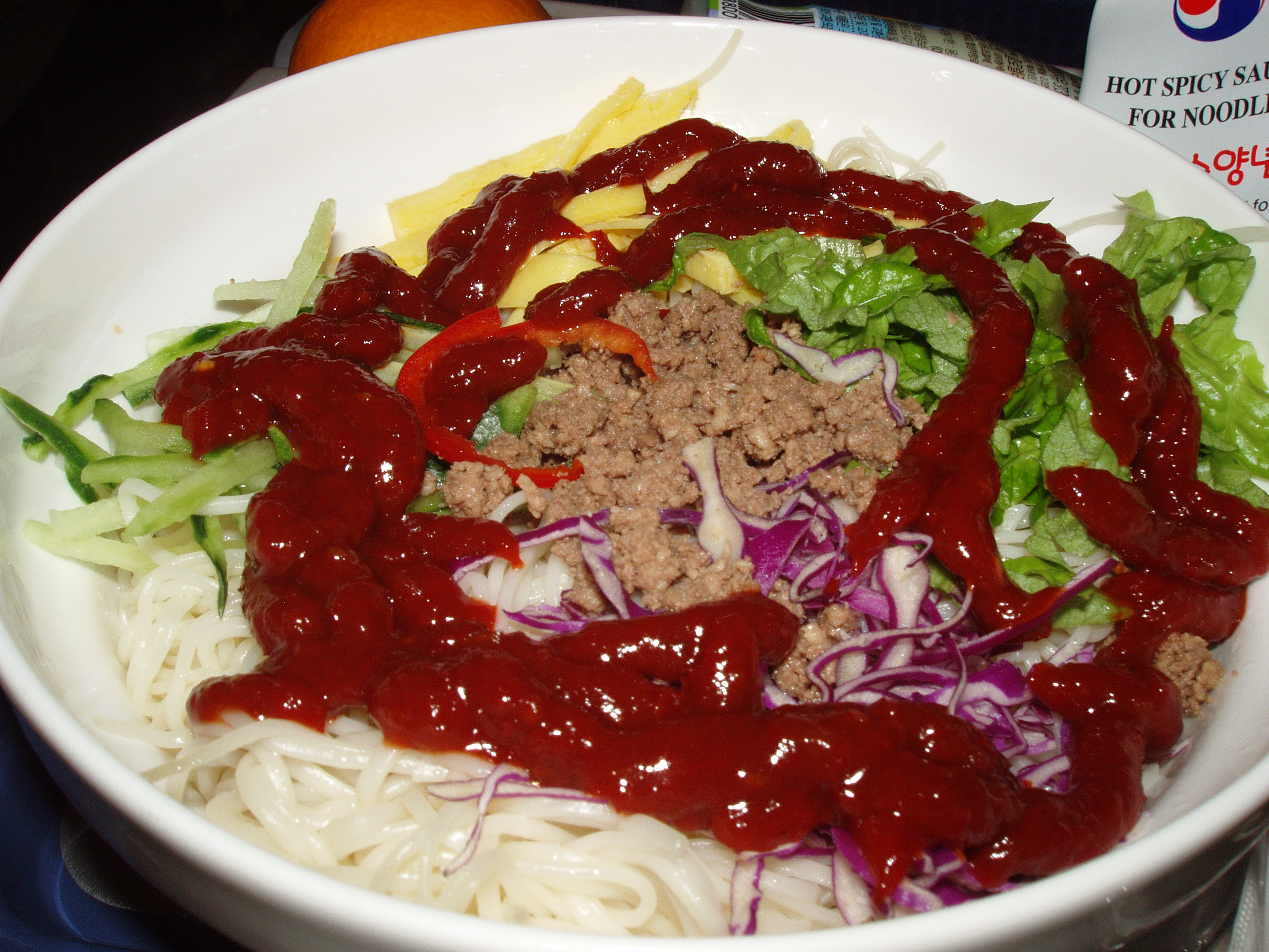 The Korean airline have a very good meal.